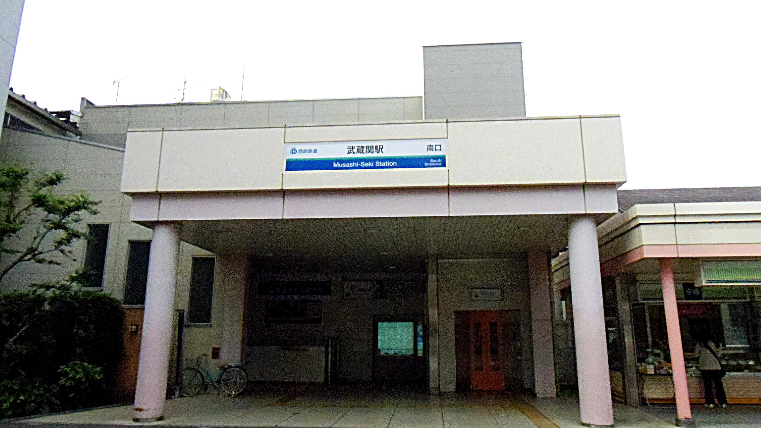 Musashi-Seki Station south entrance station building